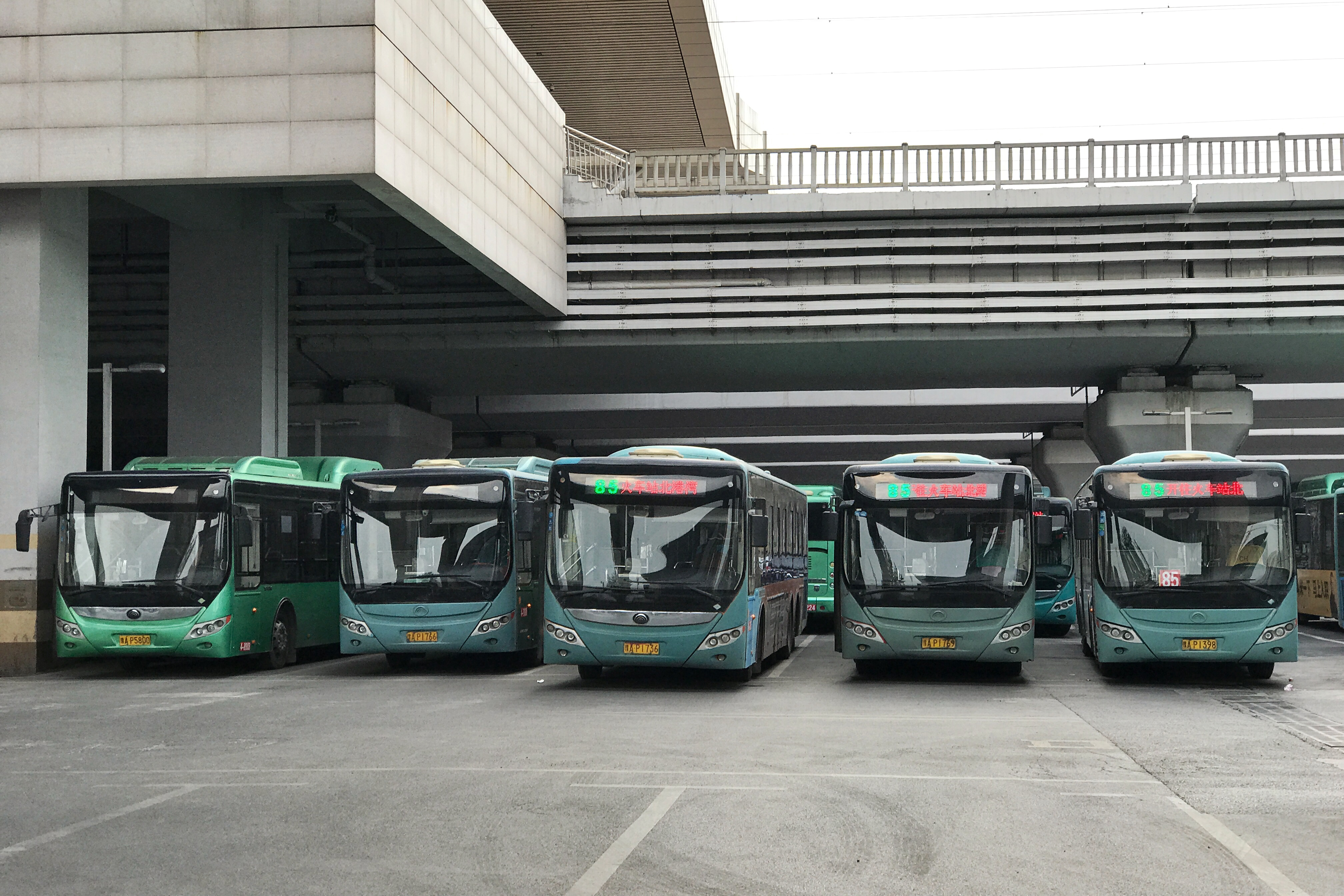 Buses of Zhengzhou Bus Route 85 parked at ZZD